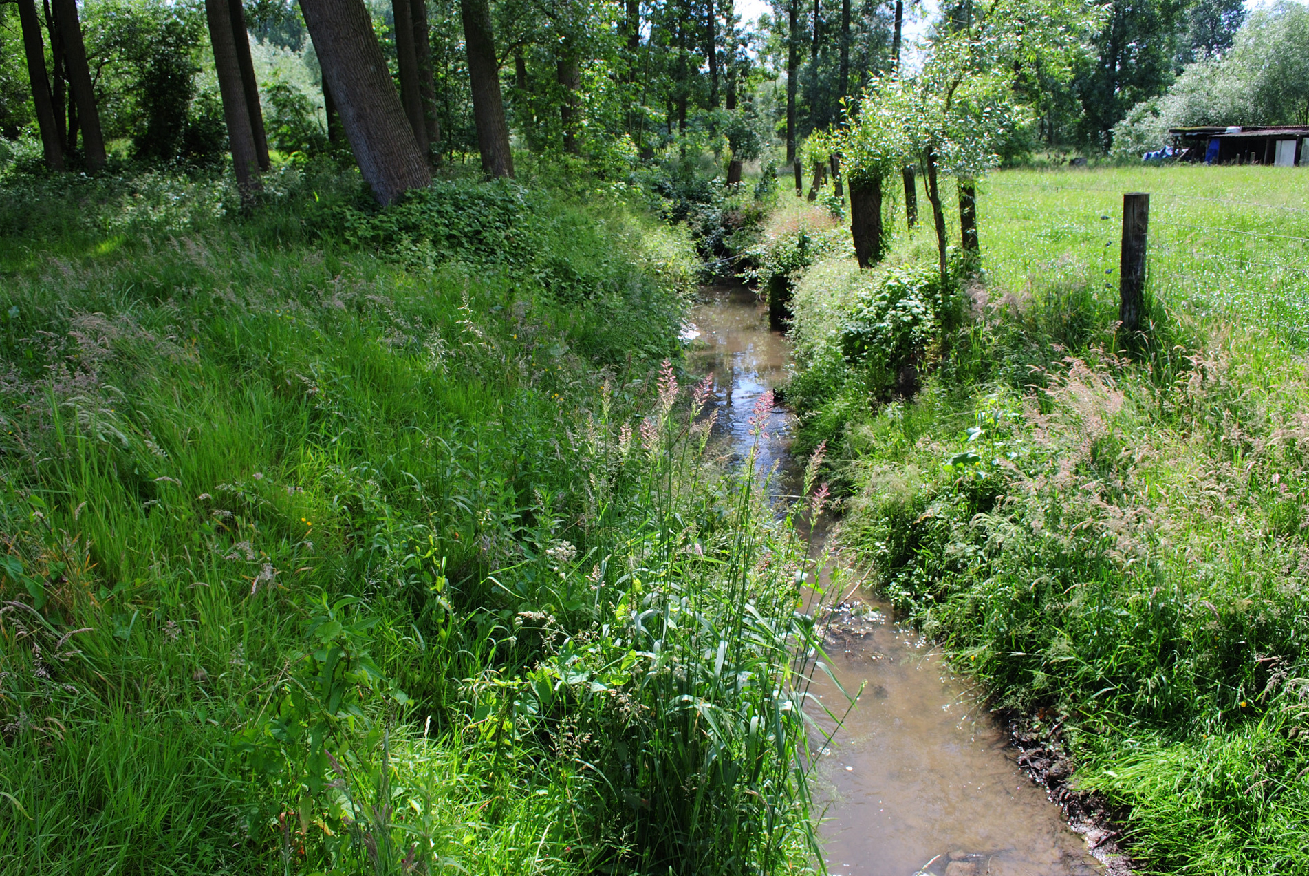 Lombeek creek at the village of Borchtlombeek, commune of Roosdaal, Belgium. Upstream view towards the South-Southeast. Nikon D60 f=18mm f/8 at 1/200s ISO 200. Colour corrected and reframed using Nikon ViewNX 1.0.3 and Adobe Photoshop 4.0.